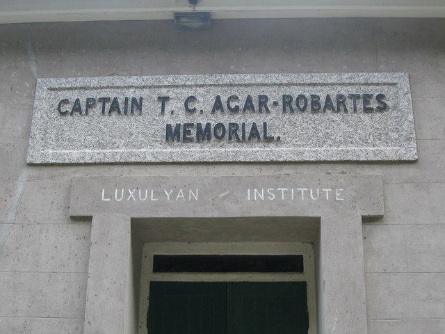 Plaque at Luxulyan Institute. A detail view of the plaque above the entrance to Luxulyan Institute.